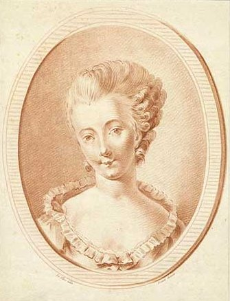 Portrait of Caroline Frederikke Halle (1755-1826), Danish actress